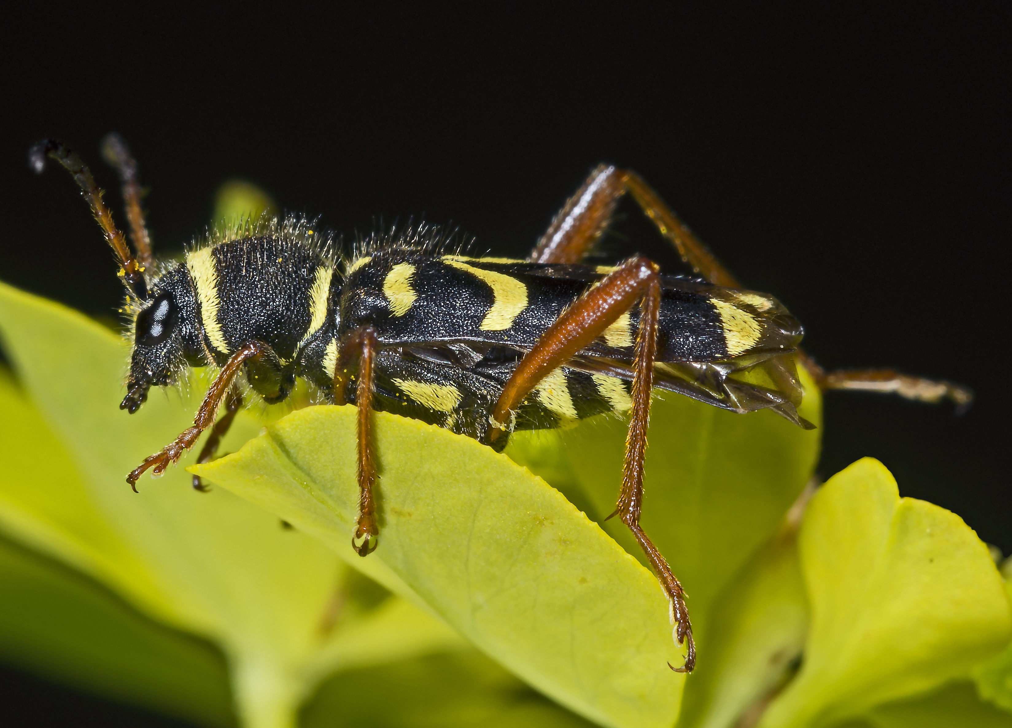 wasp beetle side view on Euphorbia flavicoma ssp.verrucosa.